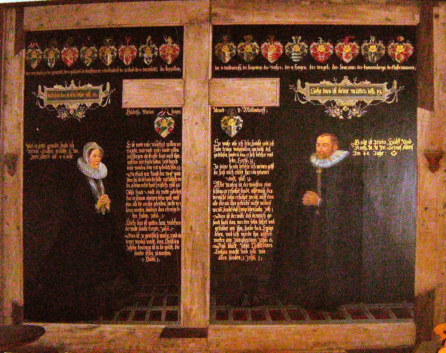 Church in the Museum in Klockenhagen, Ribnitz-Damgarten, Mecklenburg-Vorpommern, Germany